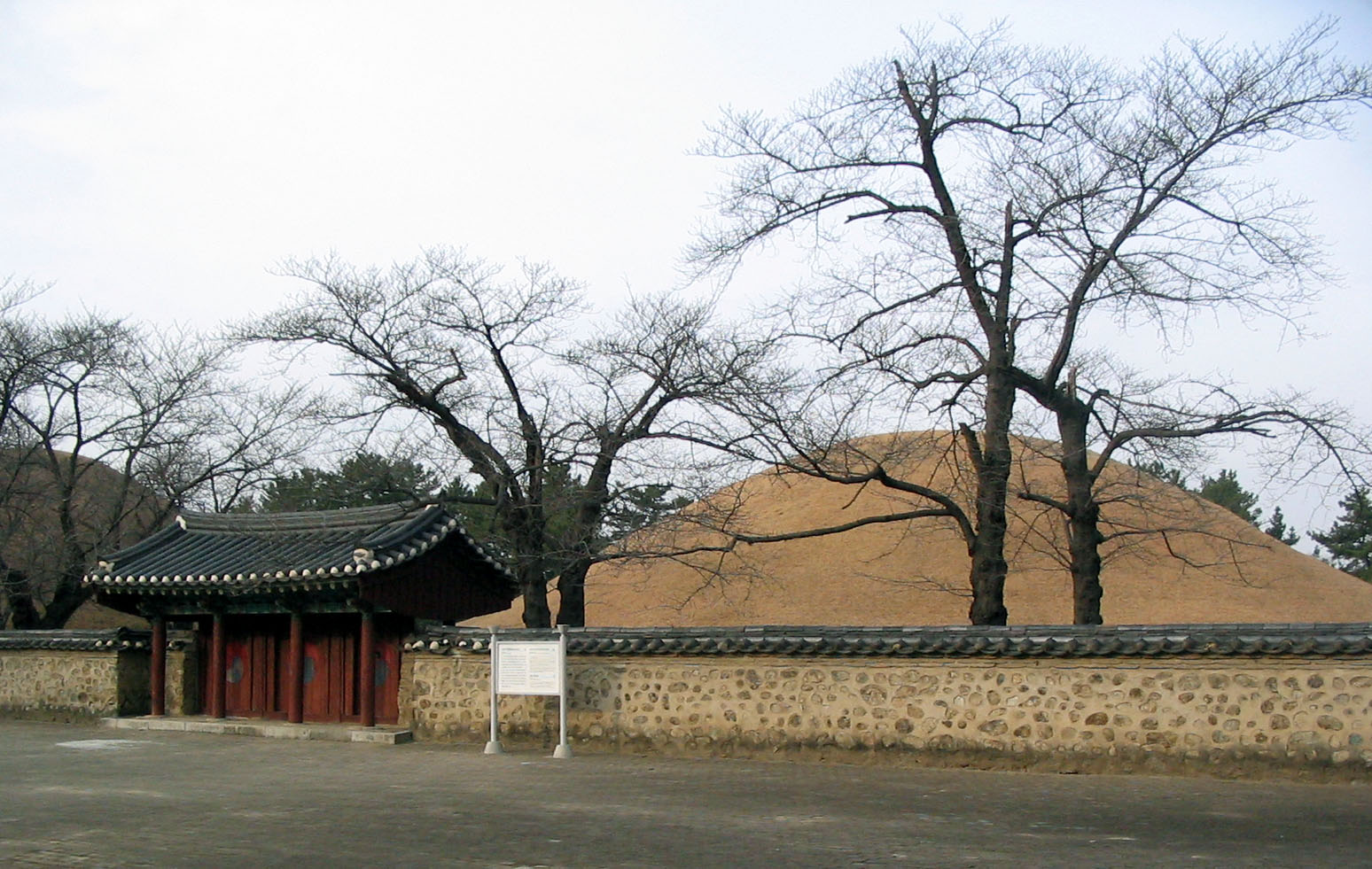 Royal tomb of King Michu of Silla located in Gyeongju, North Gyeongsang, South Korea